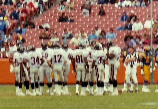 The Atlanta Falcons offensive unit in a huddle between downs during a December 8, 1991 road game against the Los Angeles Rams at Anaheim Stadium. This photograph was taken using an unspecified 35mm camera and scanned using a Canon CanoScan LiDE 60 scanner